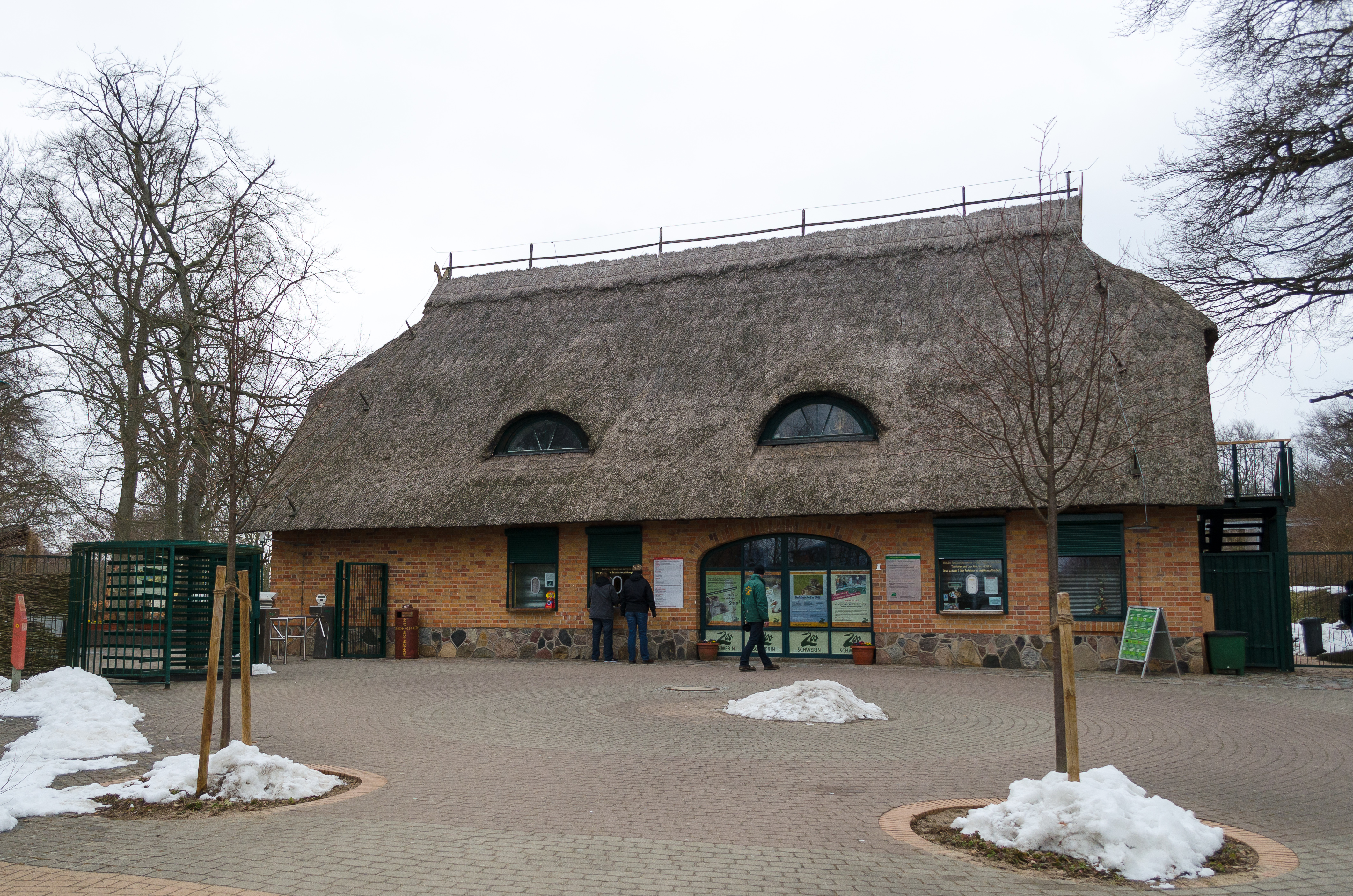 Entrance of the Zoo in Schwerin, Germany